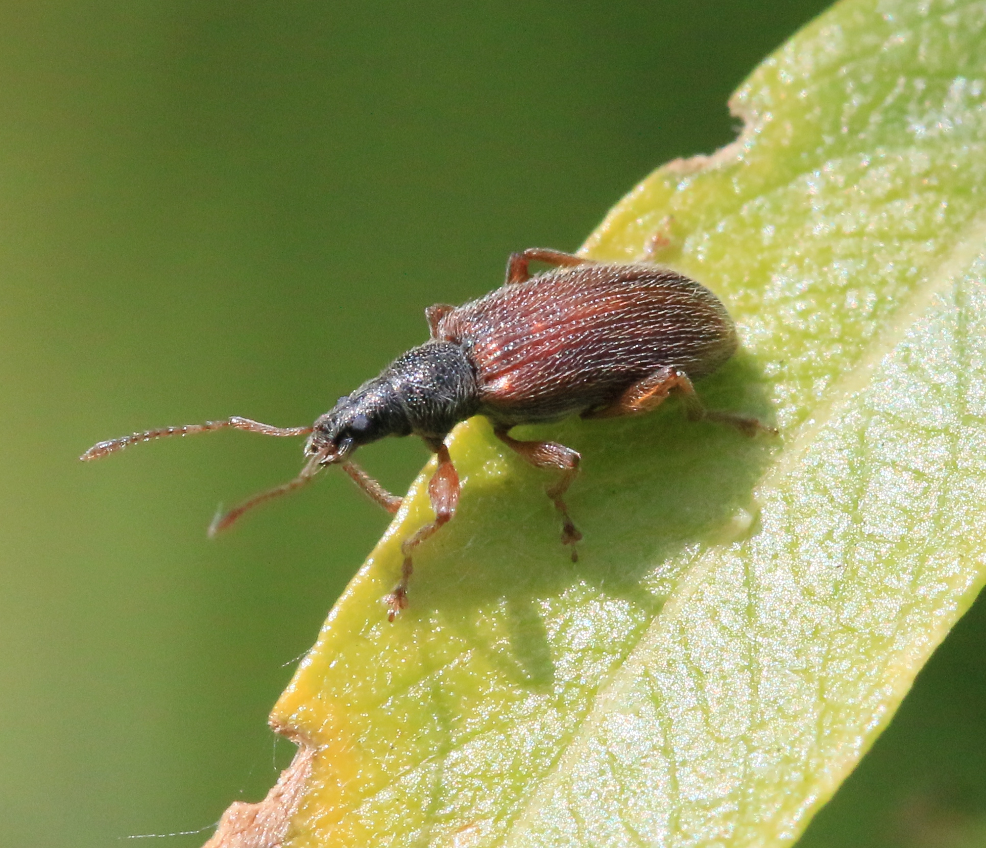 Musselburgh Invert survey